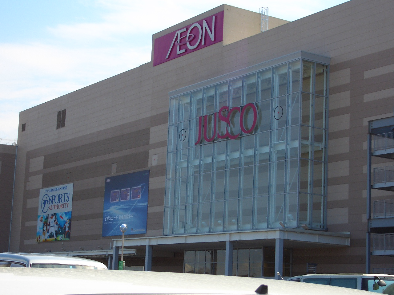 AEON Asahikawa-Nishi Shoppingcenter